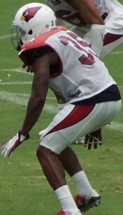 Drew Stanton # 5 handing the ball off